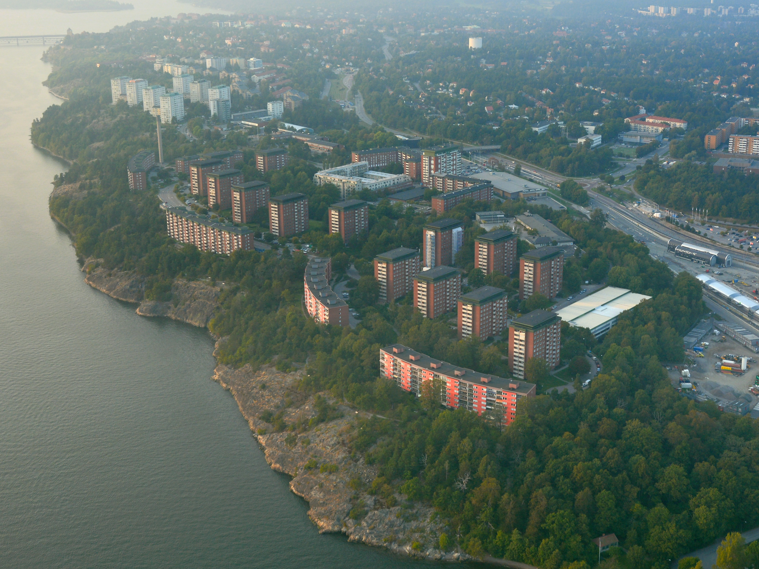 Larsberg on Lidingö, Sweden.